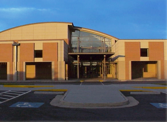 Picture of the front of the school. Grayson High School, 50 Hope Hollow Road, Loganville, Georgia, United States.[1]